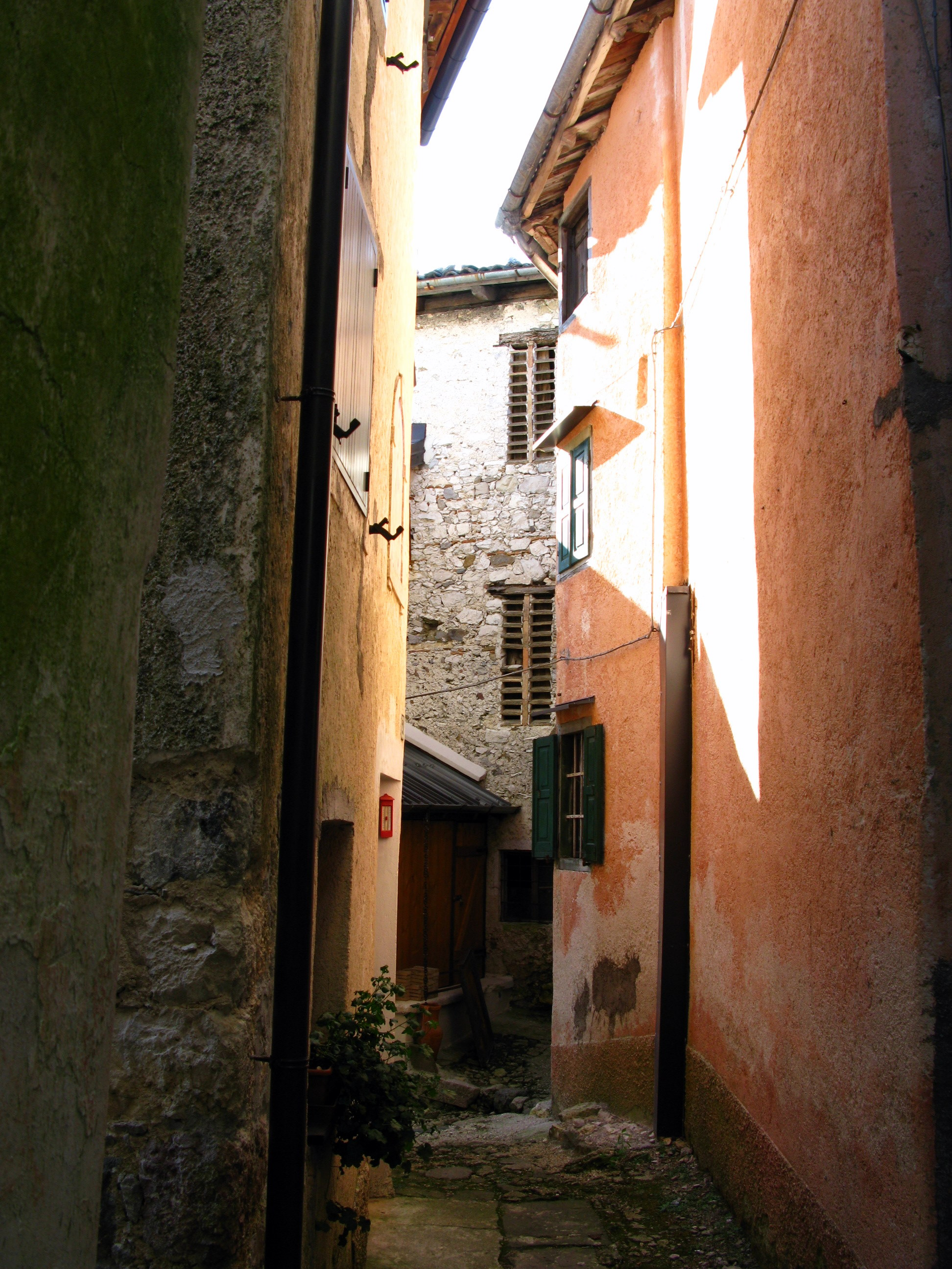 A narrow street in Stavoli a nearly abandoned villages near Moggio Udinese / Friuli-Venezia Giulia / Italy / EU.